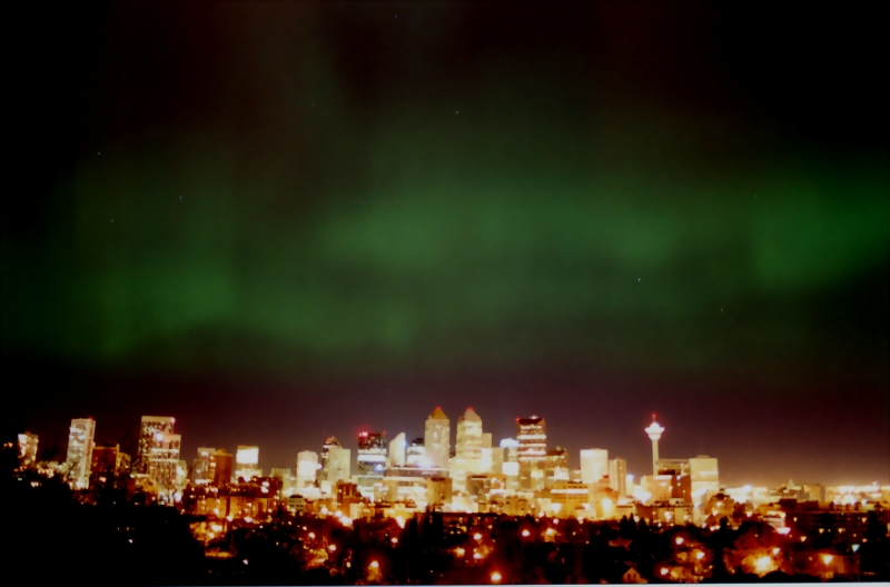 Northern lights over the city of Calgary, Alberta, Canada